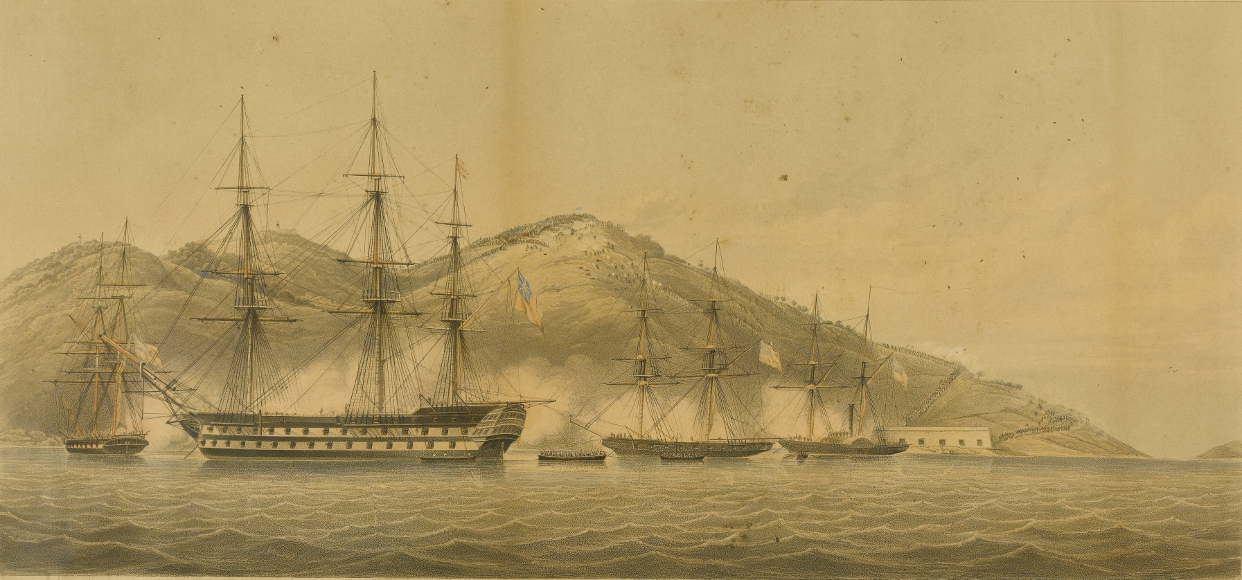 The attack on Chusan, 1 October 1841. From left to right is the Columbine, Wellesley, Cruizer, and Phlegethon. The 55th Regiment is behind the Wellesley, storming the heights of Chusan. To the right of Phelgethon, the 18th Royal Irish are enfilading the sea batteries of Tinghai city. The 43rd Regiment of the Royal & Madras Artillery, the 37th Native Infantry, and the 29th Cameronian & Madras Rifle Corps are making their way up the heights beyond the batteries.